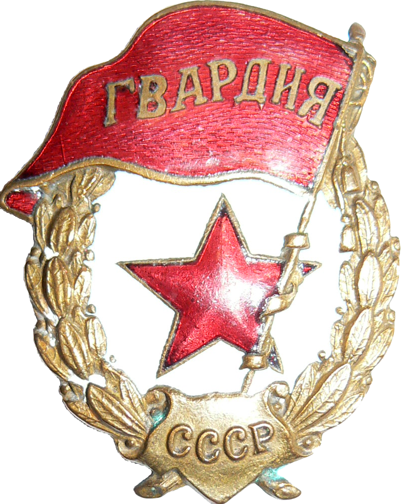 «Guards patch» to military personnel serving in Guards units, Guards formations, or Guards troops of the Red Army, version 1942.